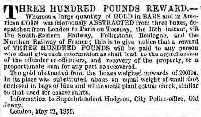 £300 reward notice for the Great Gold Robbery